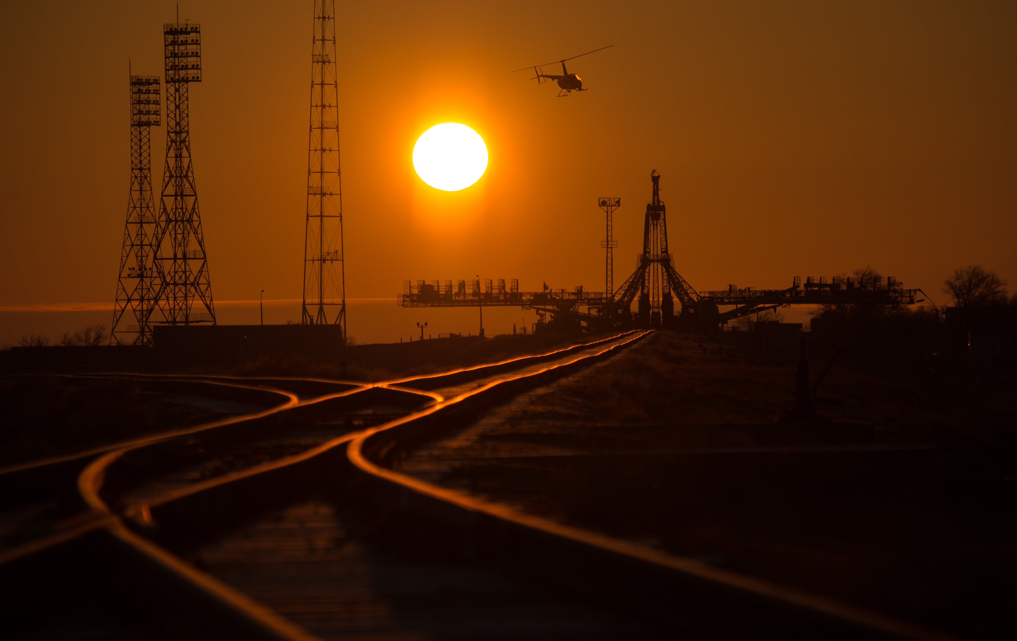 A security helicopter is seen surveying the launch pad area ahead of the Soyuz TMA-16M spacecraft arrival by train, Wednesday, March 25, 2015, Baikonur Cosmodrome, Kazakhstan. NASA Astronaut Scott Kelly, and Russian Cosmonauts Mikhail Kornienko, and Gennady Padalka of the Russian Federal Space Agency (Roscosmos) are scheduled to launch to the International Space Station in the Soyuz TMA-16M spacecraft from the Baikonur Cosmodrome in Kazakhstan March 28, Kazakh time (March 27 Eastern time.) As the one-year crew, Kelly and Kornienko will return to Earth on Soyuz TMA-18M in March 2016.